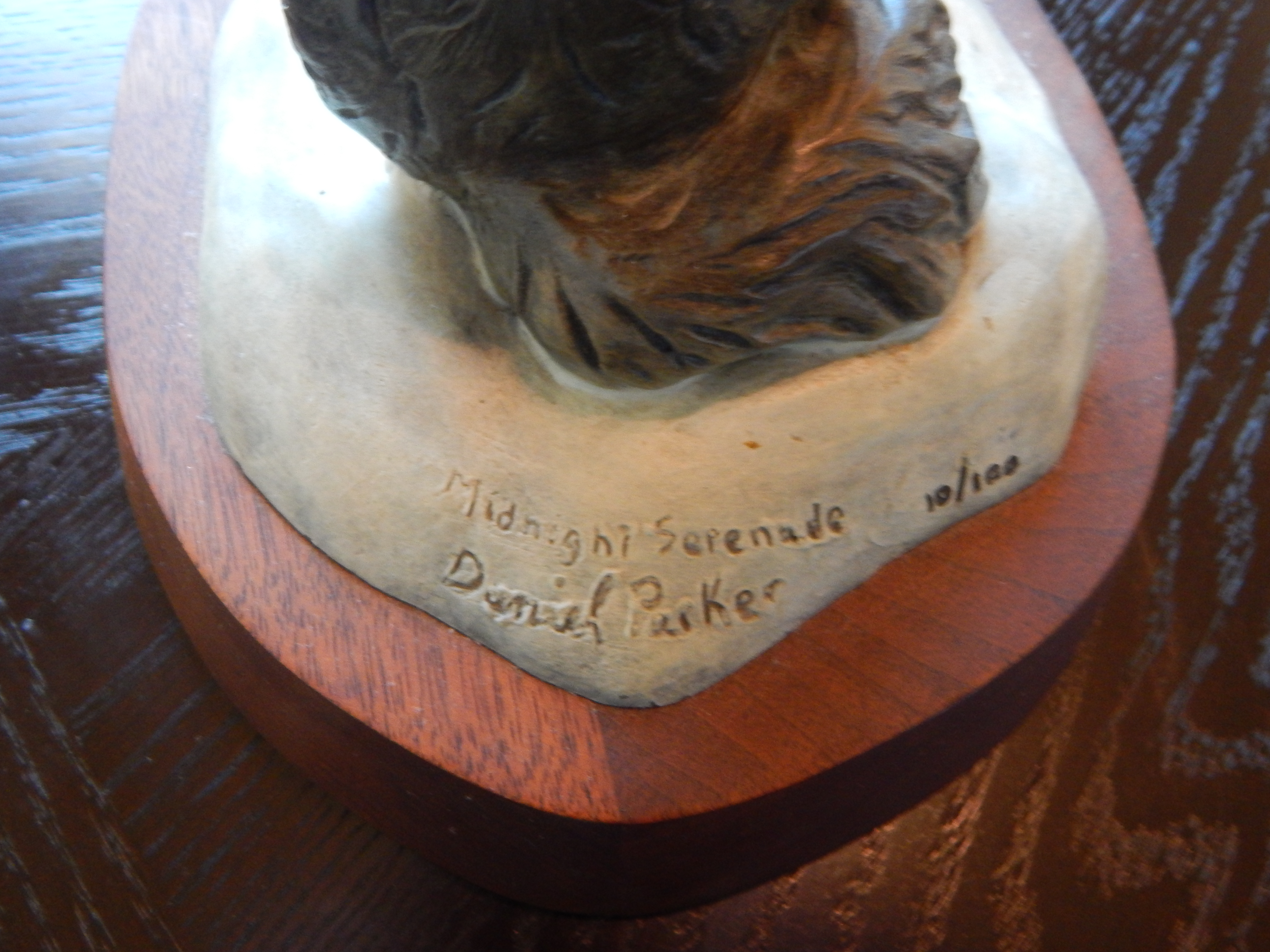 A signature example for the American wildlife sculptor Daniel Parker (born 1959).